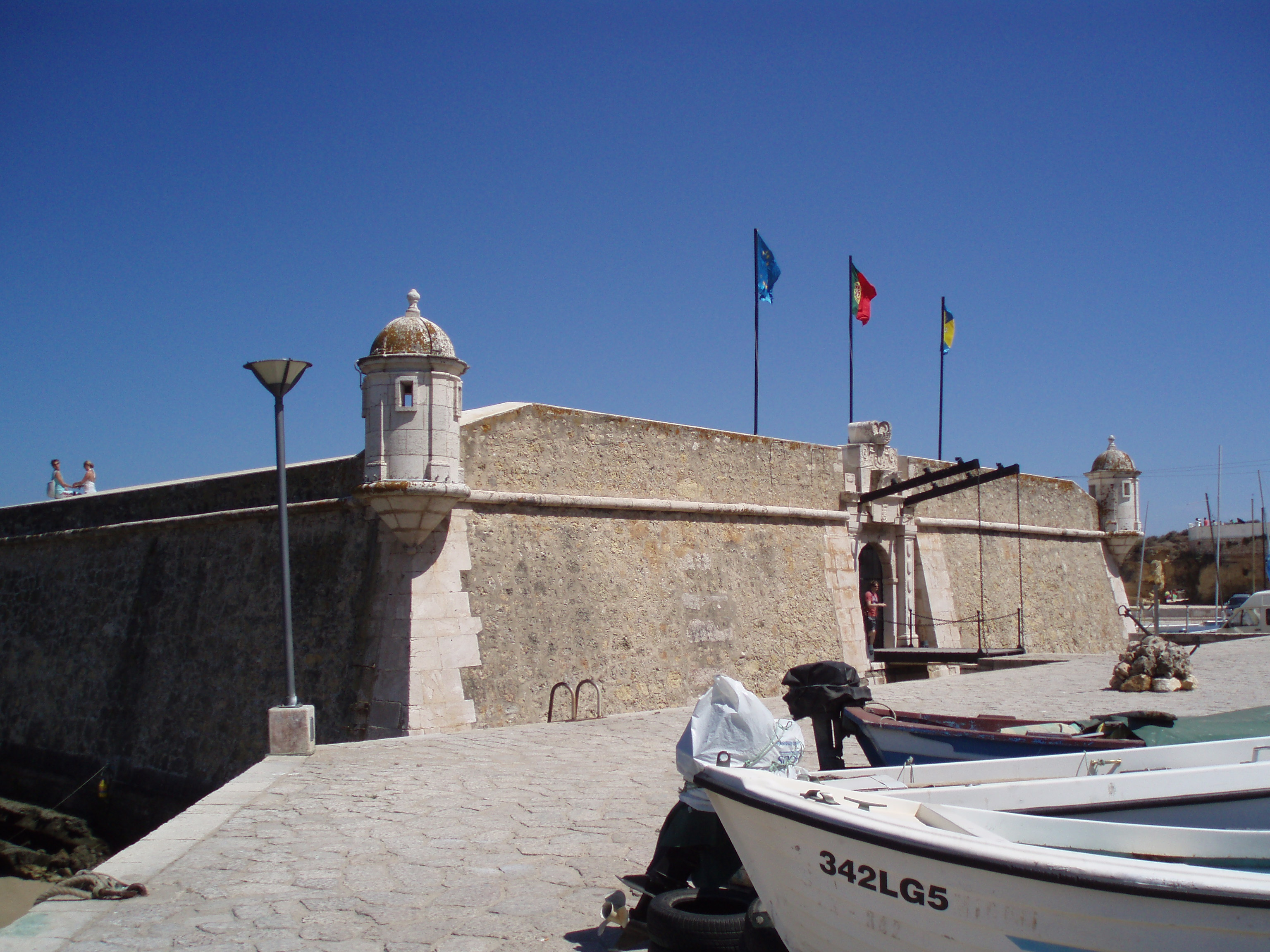 Fortress in Lagos, Portugal